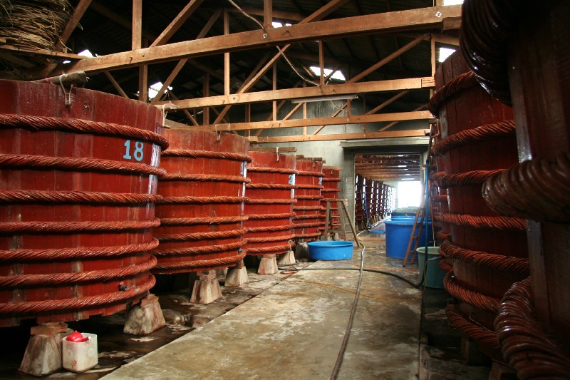 A fish sauce factory in Phú Quốc, Kiên Giang, Vietnam